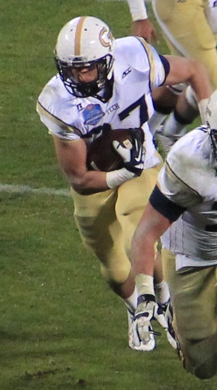 Zach Laskey rushing with the ball at the 2014 ACC Championship Game